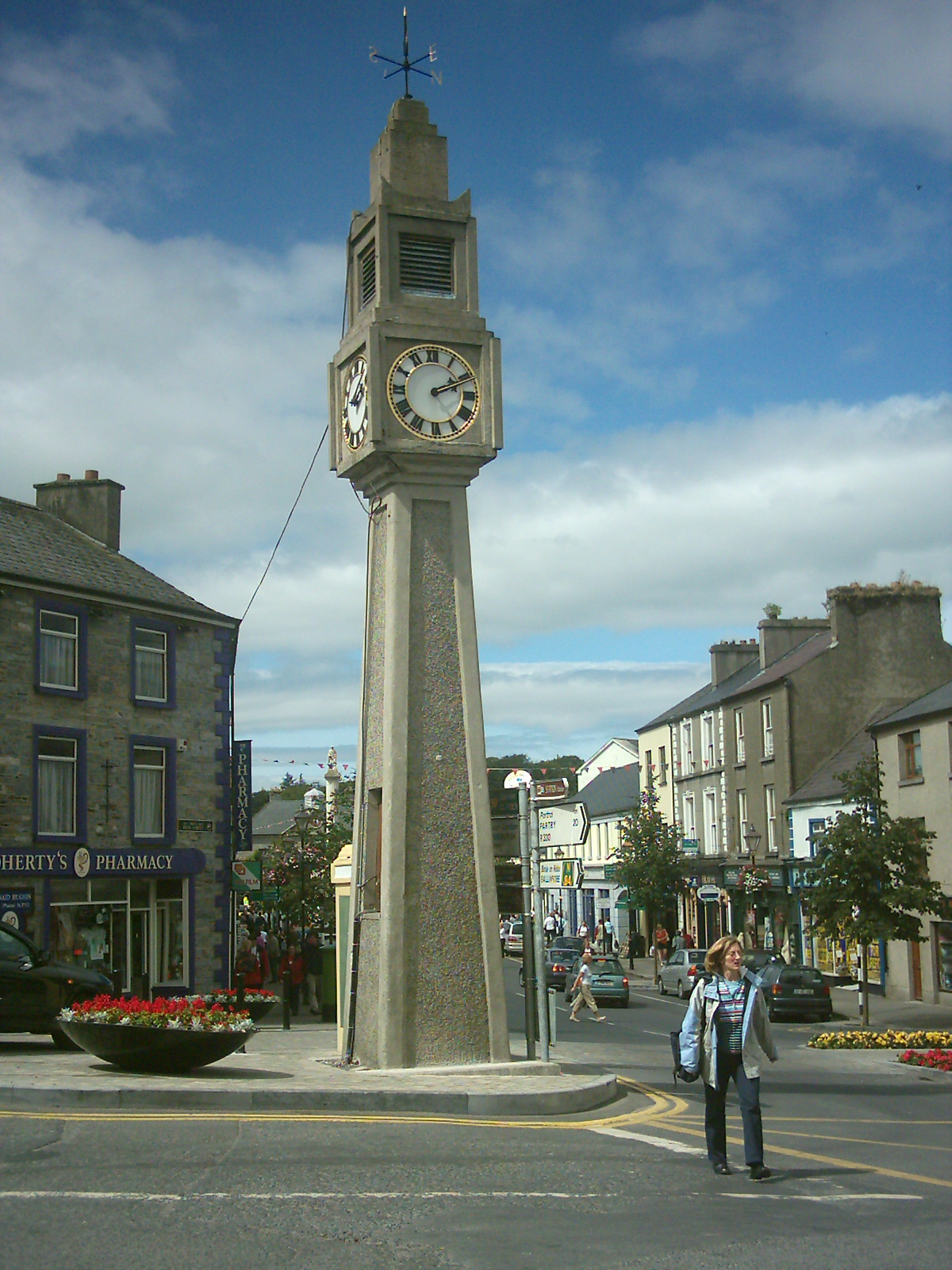 Clock in Westport